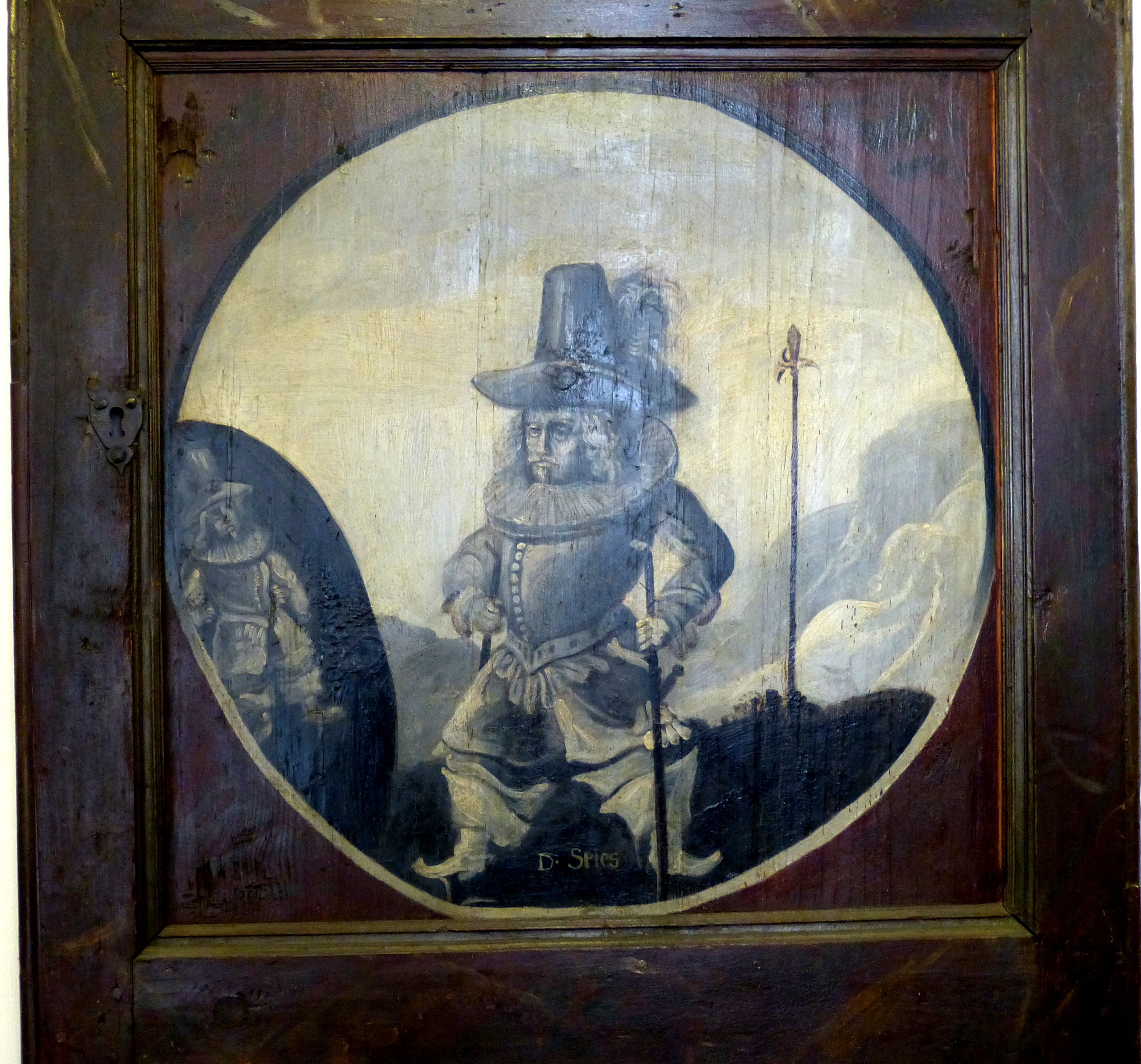 Schwerin Castle ( Mecklenburg ). Portrait ( 17th century ) of the castle ghost "Petermännchen"( Little Peter ) on a cupboard door.